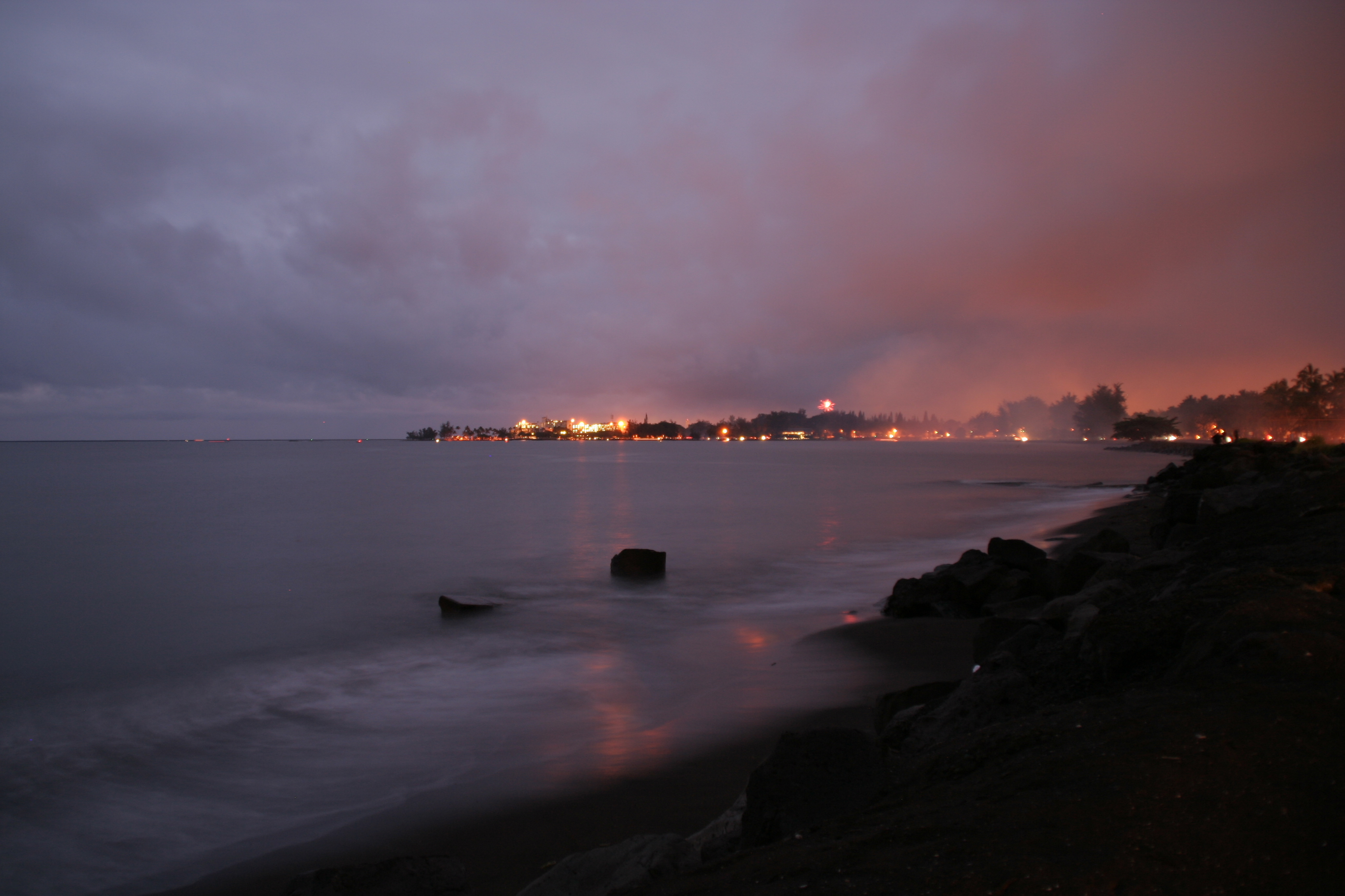 A view of Hilo Bay taken on the night of Fourth of July.